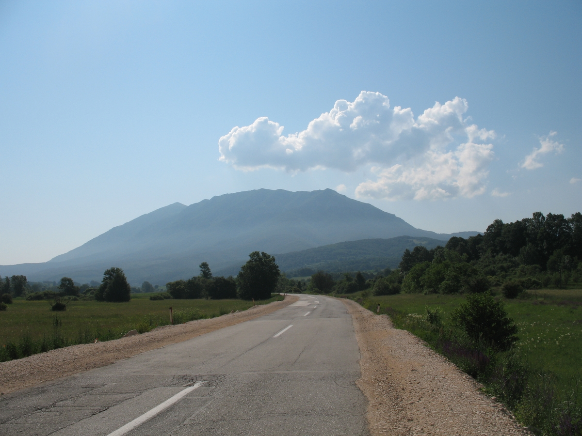 View on Rtanj mountain near Zaječar, Serbia.